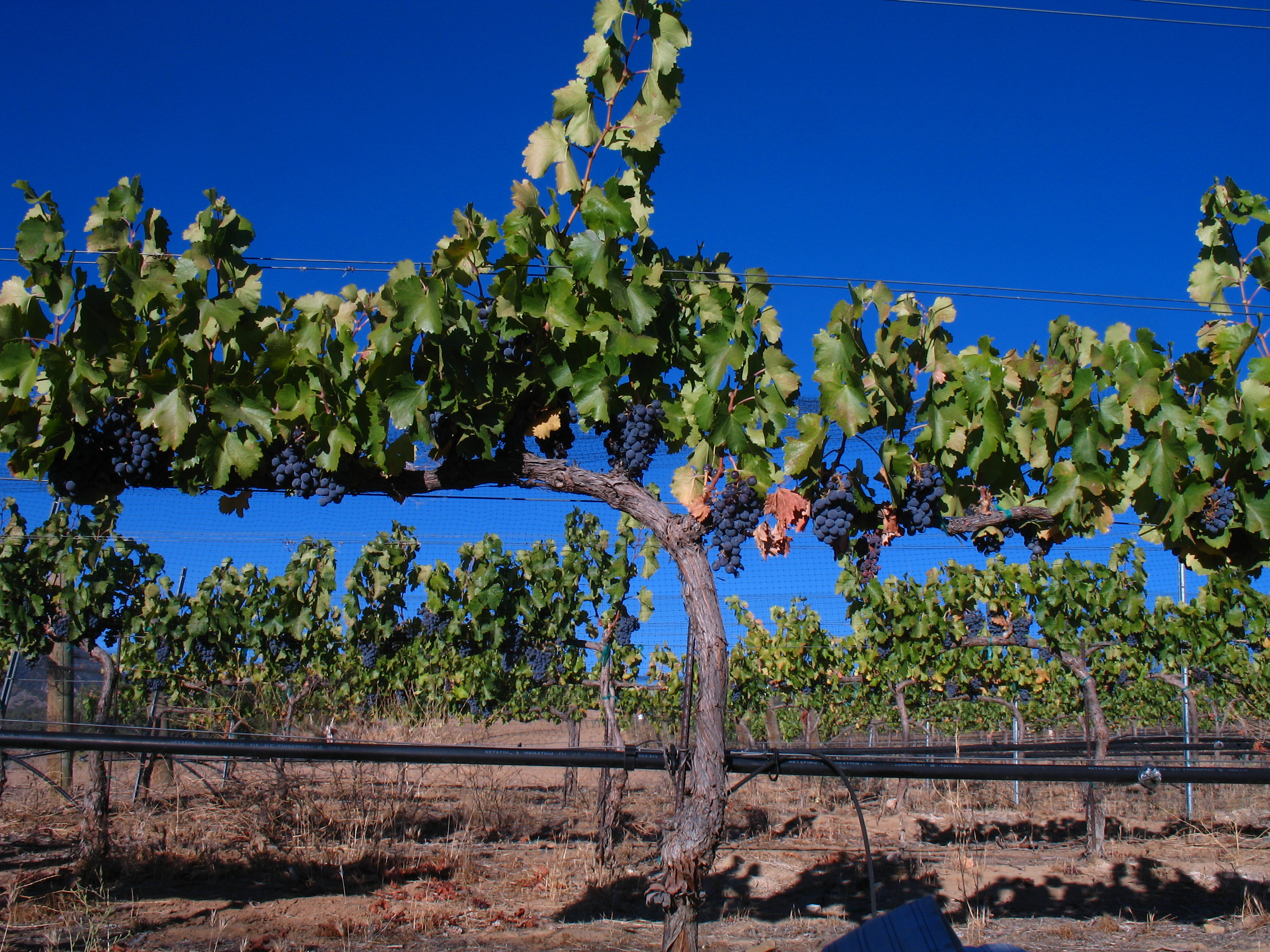 Vine training and drip irrigation of a grenache vine in Santa Barbara California